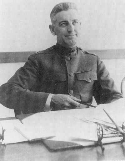 Photo of Col. (later Brig. Gen.) Theodore C. Lyster, MD (1875-1933); U.S. Army; Aviation Medicine pioneer; From: Gillett, Mary C. (1995), The Army Medical Department, 1865-1917, Washington, DC: Center of Military History, United States Army. (Series: Army Historical Series)